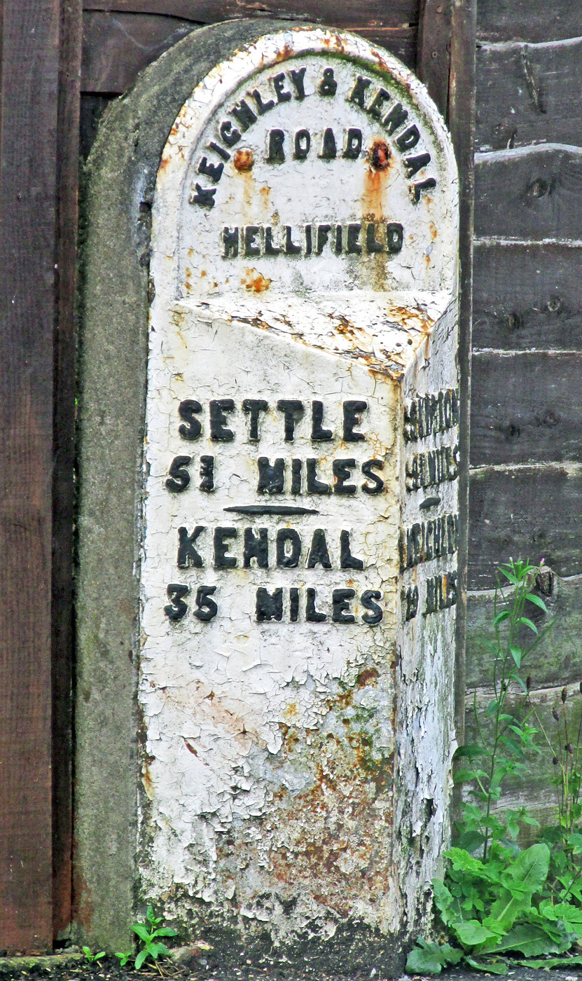 Milestone on the A65 Keighley & Kendal road in Hellifield village. The other face records the distance to Keighley as 19 miles.